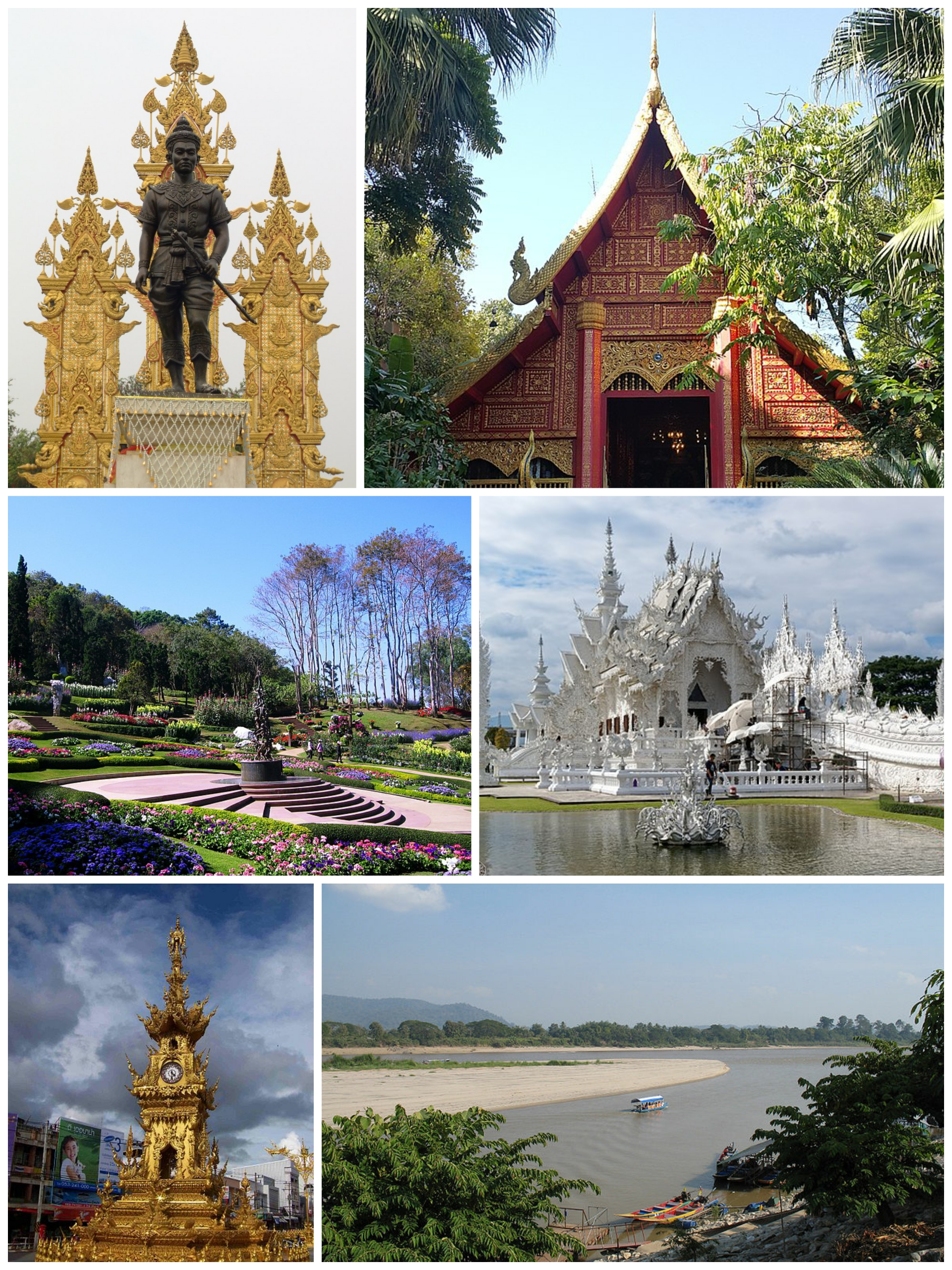 Photo montage of Chaing Rai—Clockwise from top: King Mangrai Monument, Wat Phra Kaew of Chiang Rai, Wat Rong Khun, Golden Triangle Border in Chiang Saen, Chiang Rai City Clocktower, Doi Tung Royal Villa